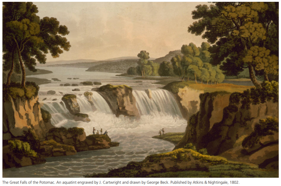 This 1802 aquatint shows the Great Falls of the Potomac as viewed from the Virginia side of the river.